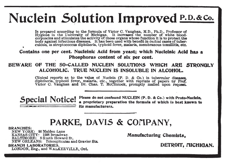 An ad from Therapeutic Notes magazine, 1896, for a nuclein solution.